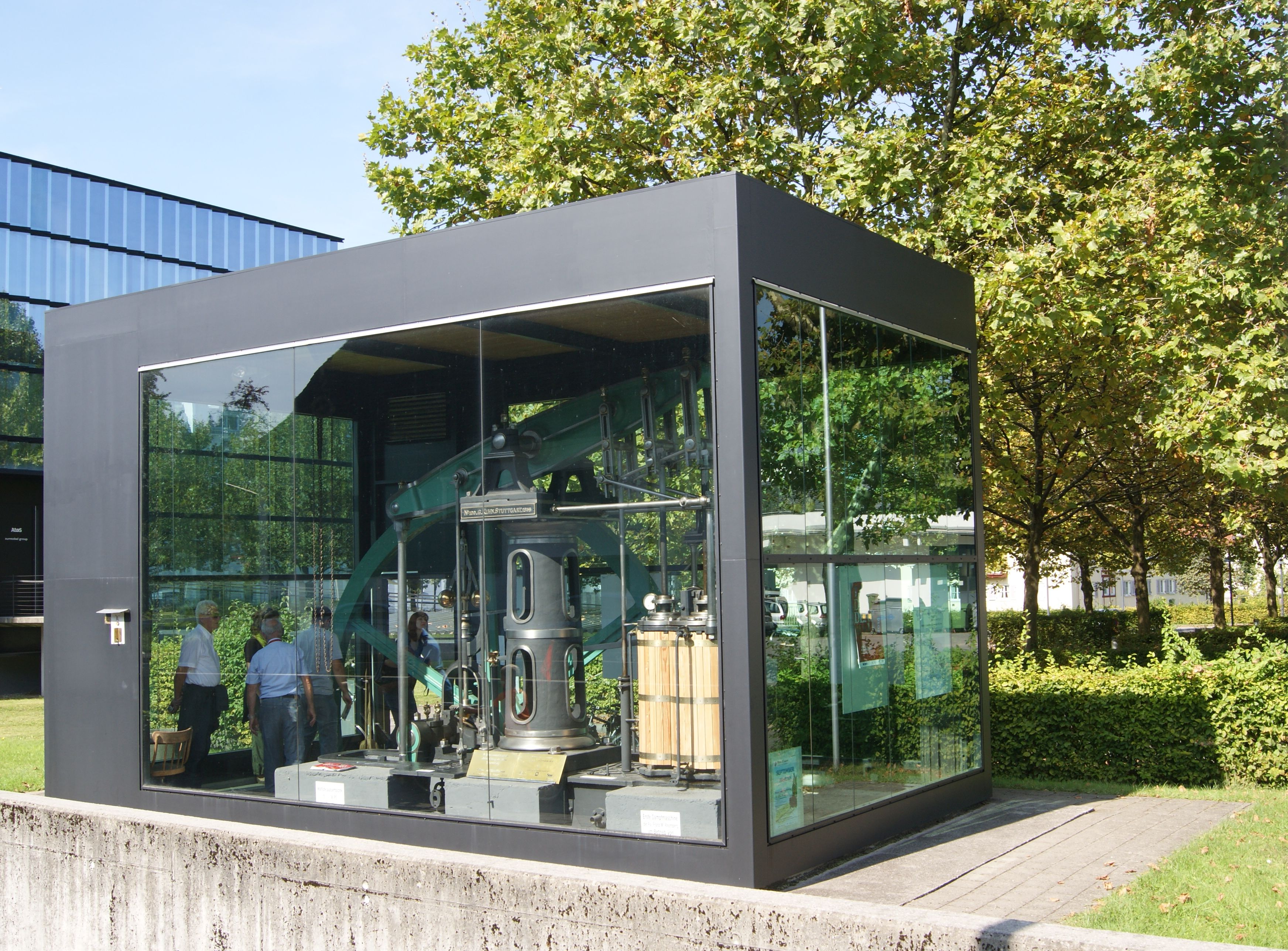 Steam engine from G. Kuhn in the former factory F.M. Rhomberg in Dornbirn in 1858